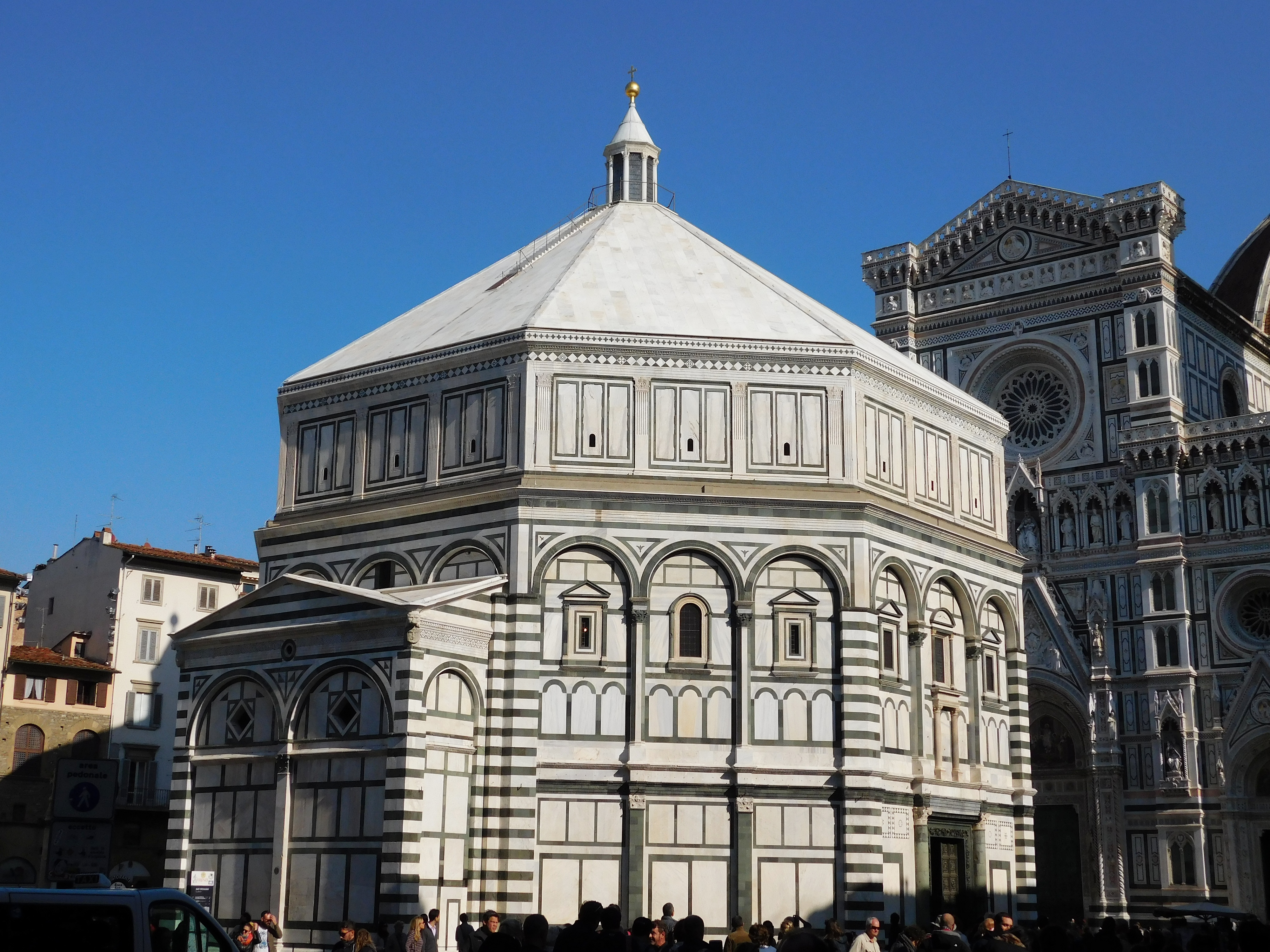 Florence, the Cathedral of Santa Maria del Fiore